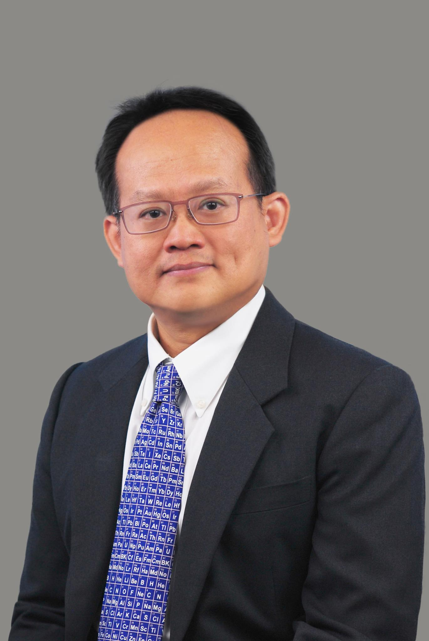 Dr.Palangpon Kongsaeree